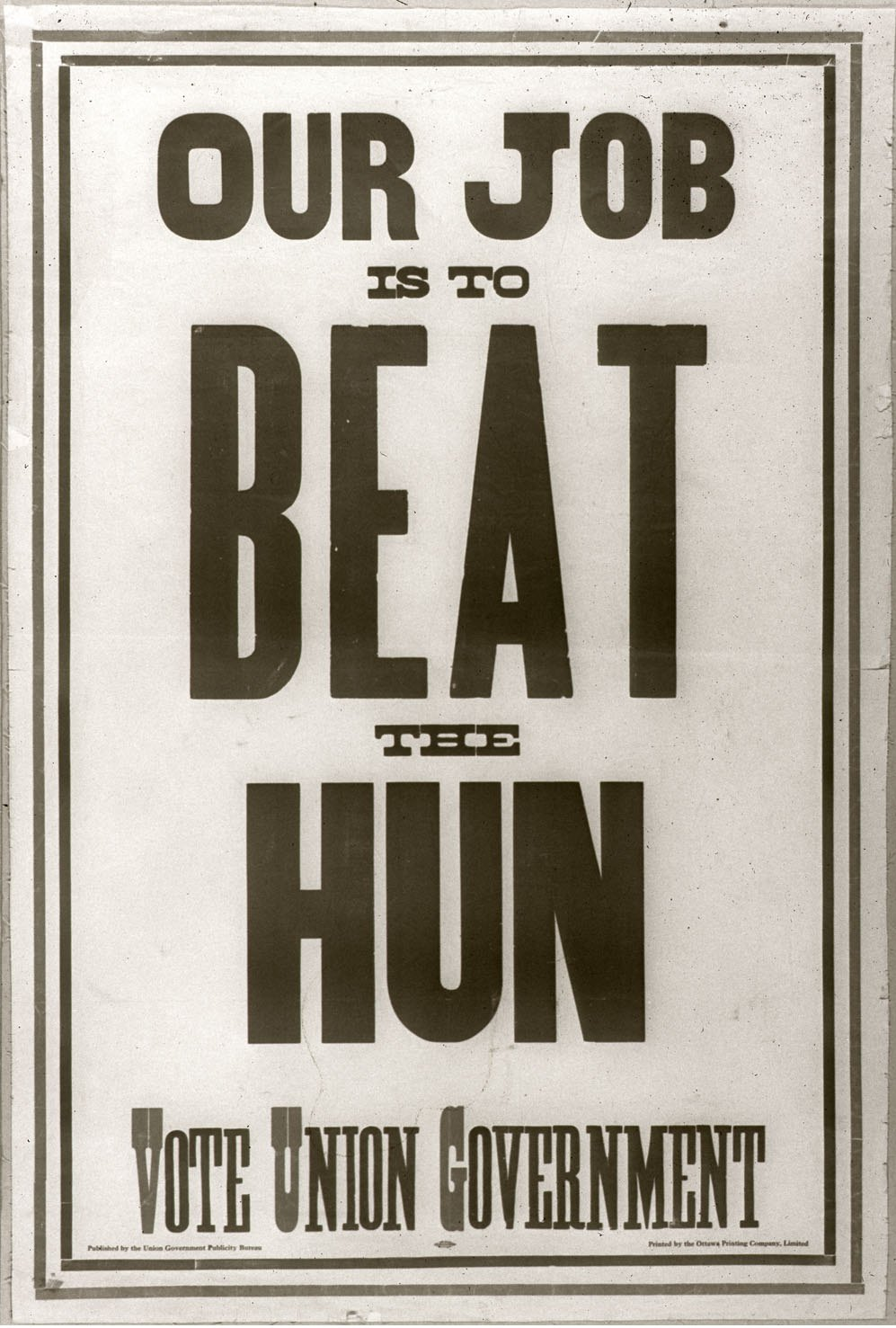 OUR JOB IS TO BEAT THE HUN VOTE UNION GOVERNMENT : First World War Canadian Union government electoral campaign.